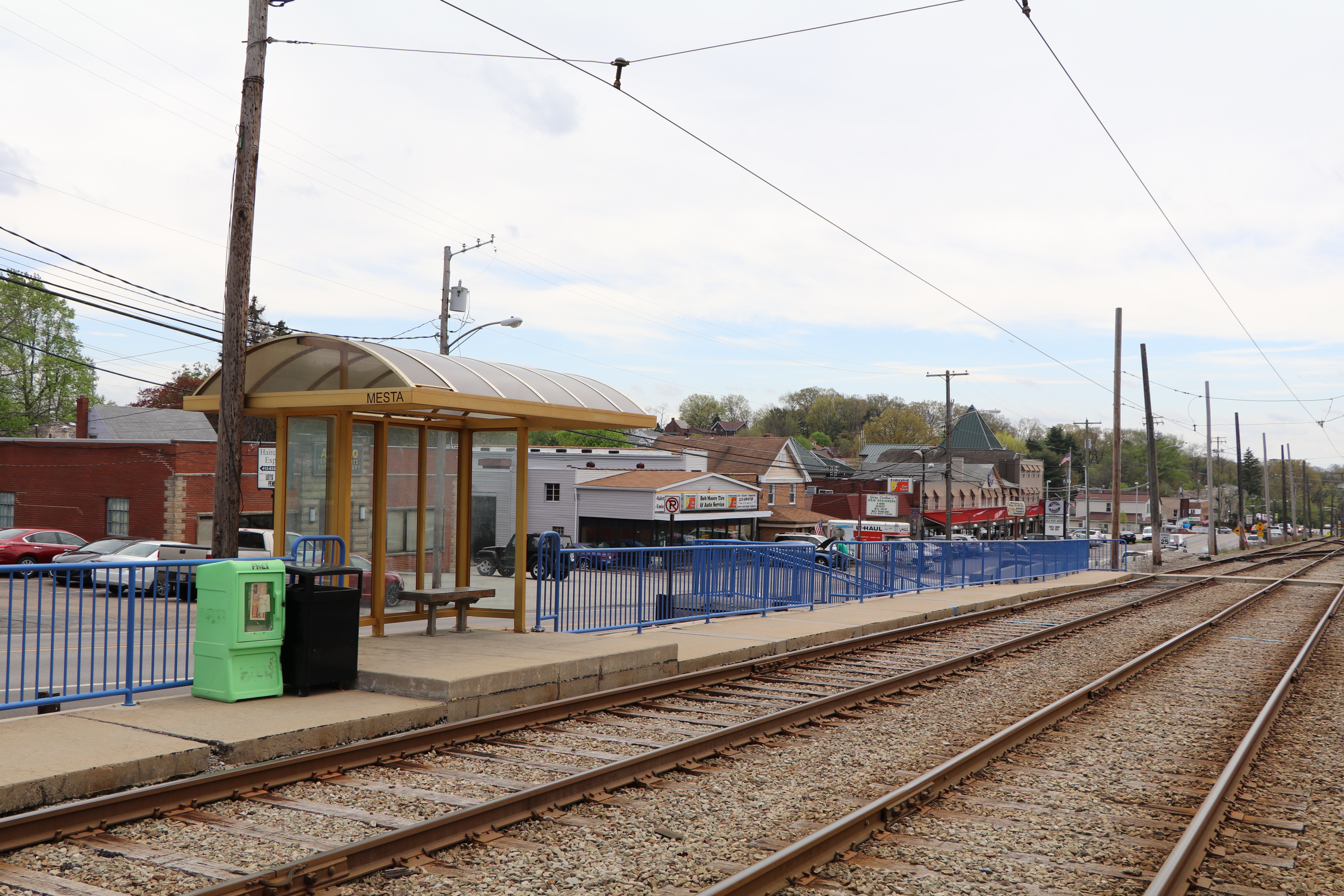 Mesta station on the Blue Line, Bethel Park, PA. View looking south at the inbound platform.